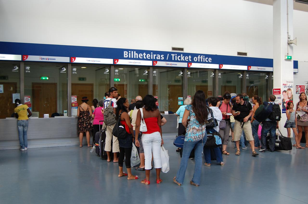 Ticket Office / Rede Expressos